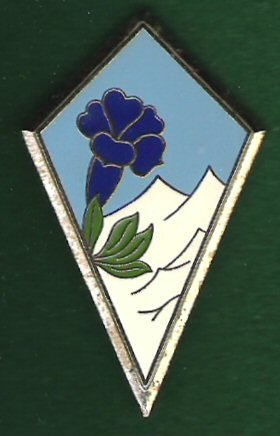 Insignia of the 27th Mountain Infantry Brigade (France).